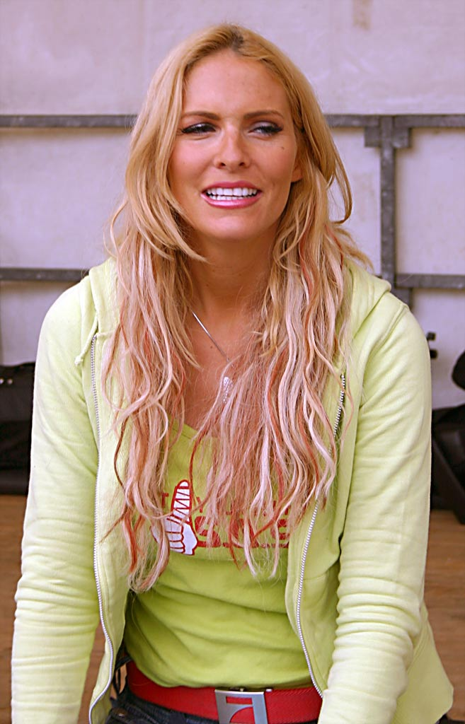 Sonya Kraus (born June 22, 1973) is a German television presenter and former model. Mitwirkung: talk talk talk Fort Boyard – Stars auf Schatzsuche Do it Yourself – S.O.S. Werke: Baustelle Mann – Der ultimative Love-Guide, Reihe: Bastei-Lübbe Taschenbücher, Verlagsgruppe Lübbe, Bergisch Gladbach März 2007, ISBN 978-3404664078. Bearbeitet unter Anleitung von Marcela - besten Dank.